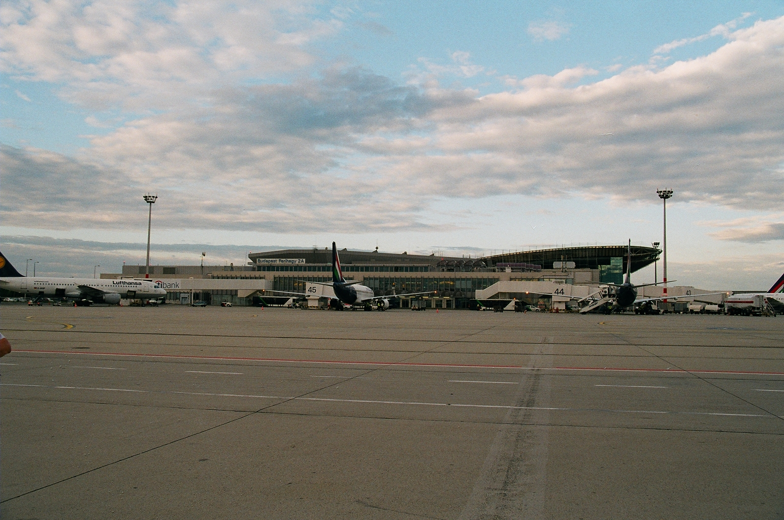 Terminal 2 Ferihegy International Airport, Budapest, Hungary